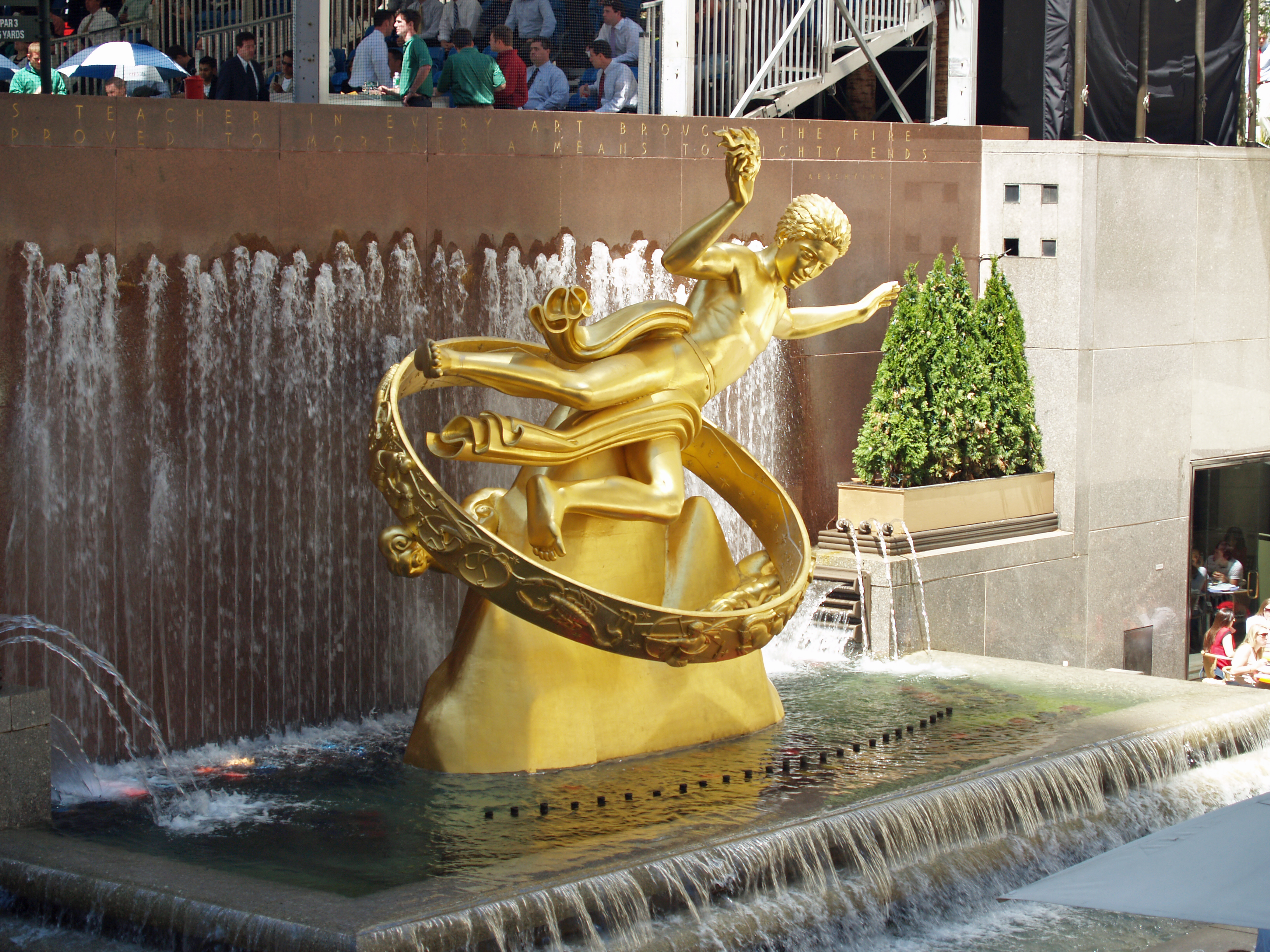 Prometheus at Rockefeller Center, sculpture by Paul Manship, 1933